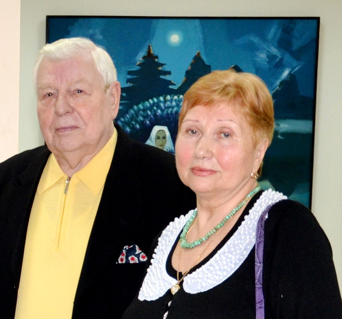 Leanid Shchamialiou, belarusian painter with wife Sviatlana at his exposition 28.12.1013. His 90 years old.